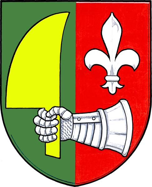 Municipal coat of arms of Kurovice village, Kroměříž District, Czech Republic.